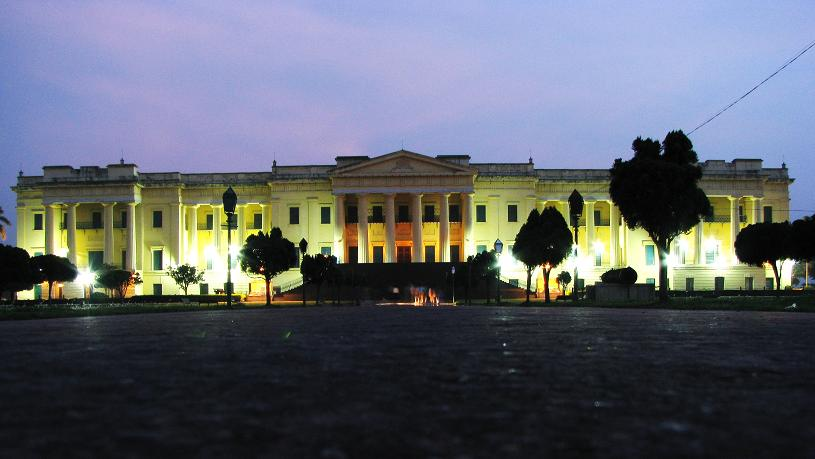 hazarduari of murshidabad.